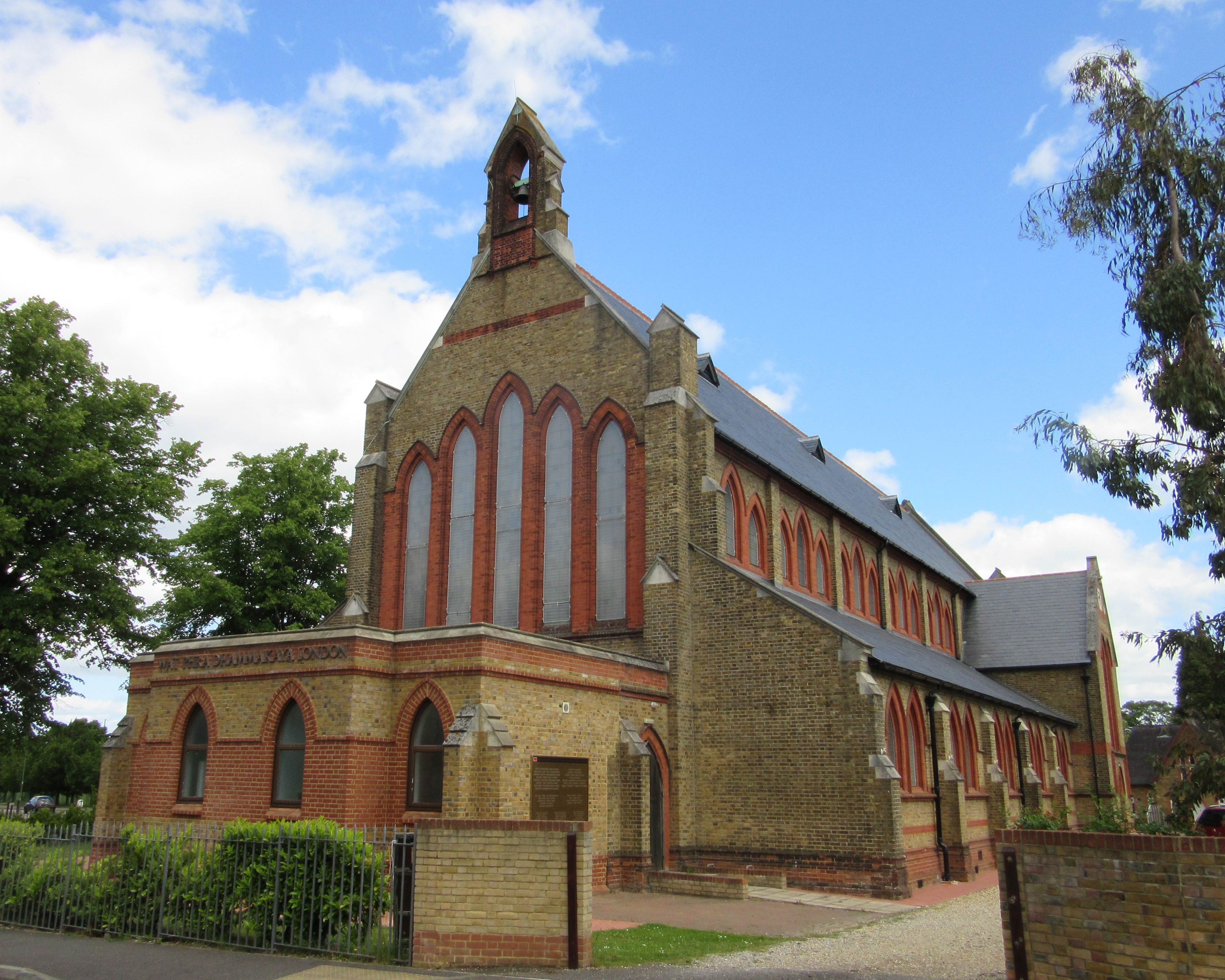 Wat Phra Dhammakaya London (Woking Buddhist Temple), Brushfield Way, Knaphill, Borough of Woking, Surrey, England. This was originally the chapel of Brookwood Mental Hospital.